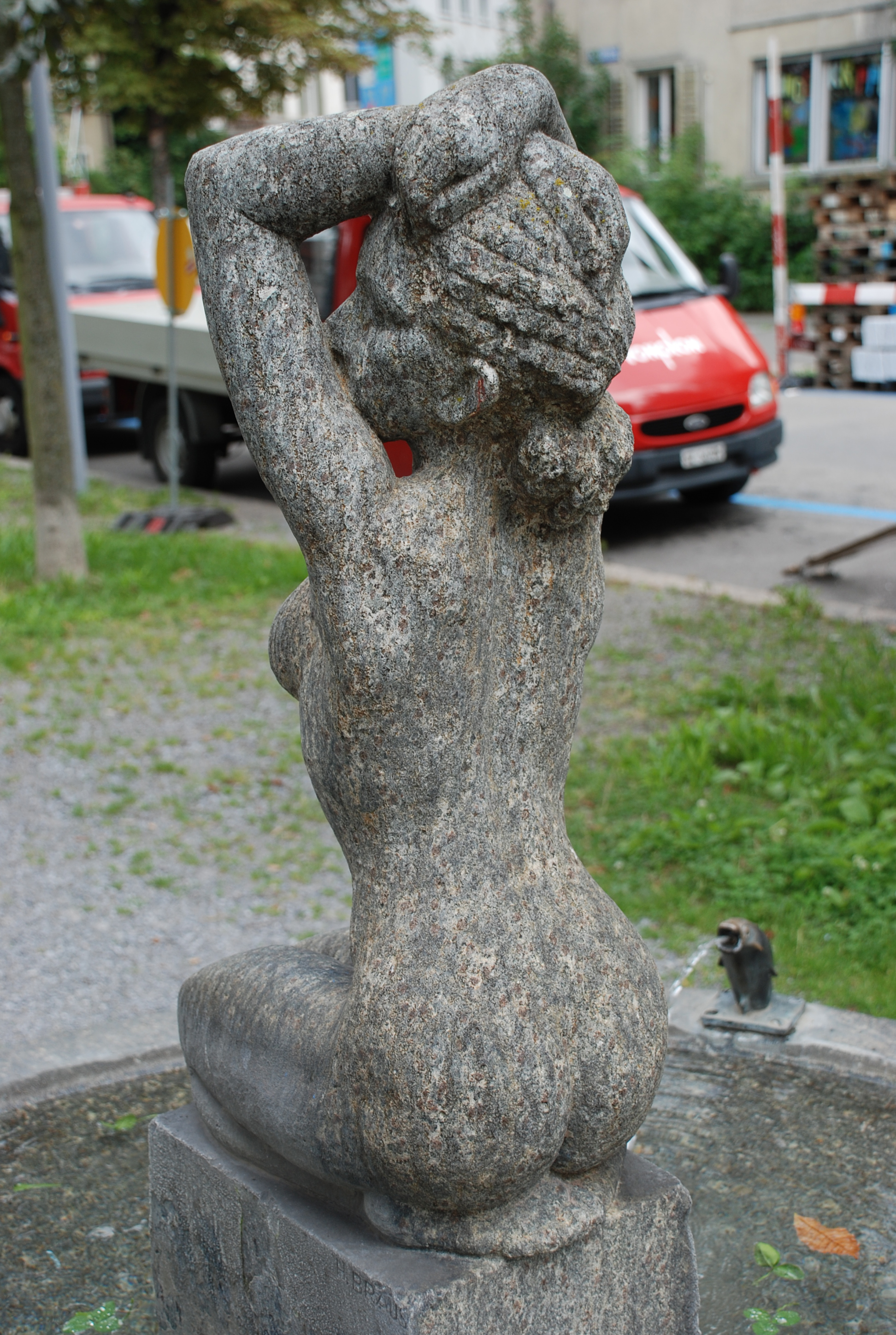 Kneeing Girl (Detail from a limestone fountain), 1946. By Hedwig Haller-Braus. Location: Aegerten-/Werdstrasse, Zurich Switzerland.